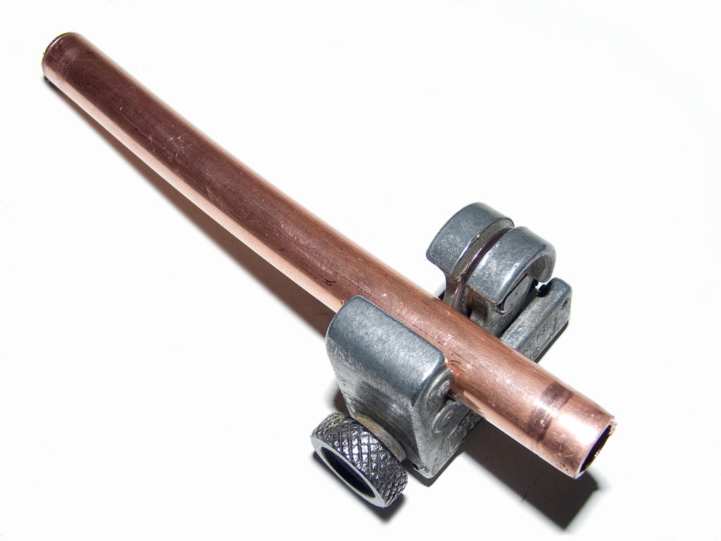 En rörskärare med rör i